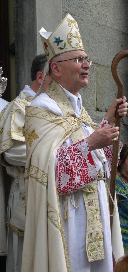 Bishops the Roman Catholic Archdiocese of Lucca